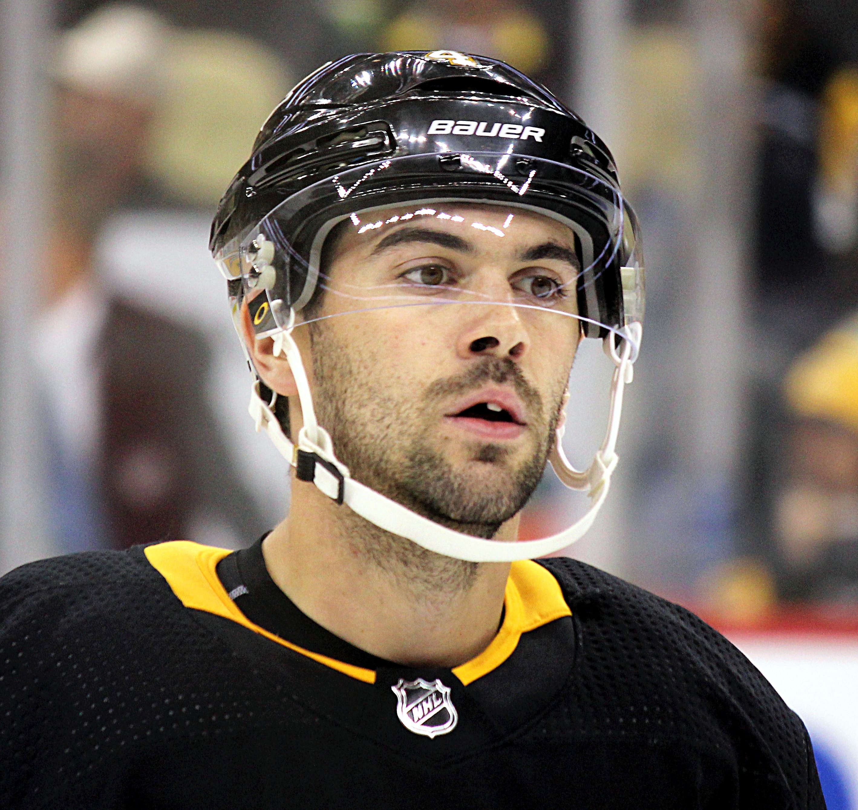 Pittsburgh Penguins defenseman Justin Schultz during a game against the St. Louis Blues, October 4, 2017, at PPG Paints Arena in Pittsburgh, PA.